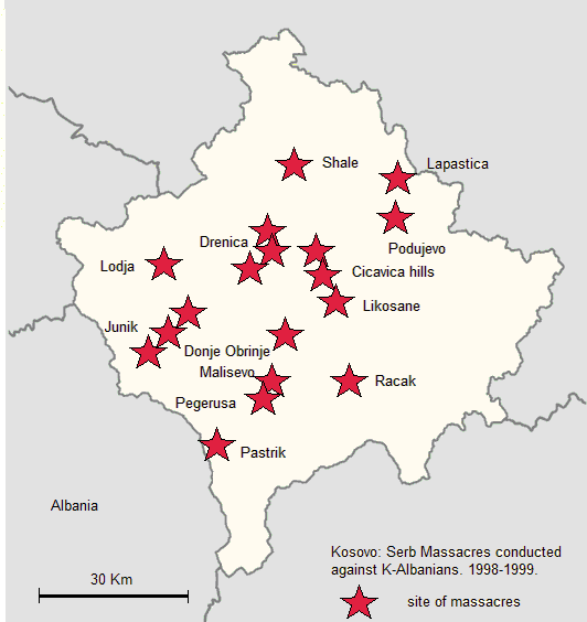 Kosovo massacres by Serbs on Albanians 1998-199. Source and researched by Pandion Research ([1])